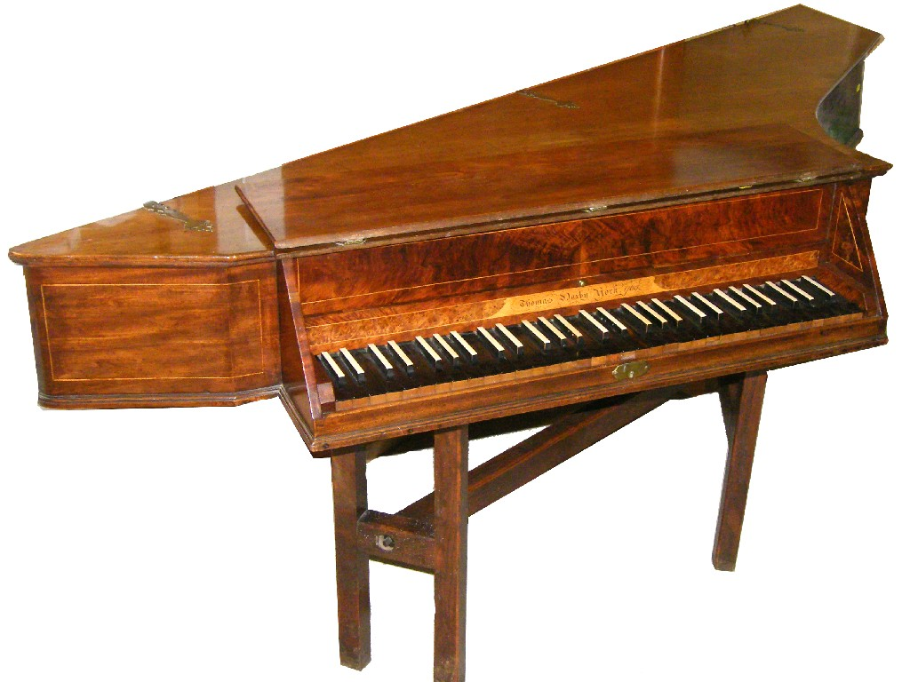 Spinett by Thomas Haxby (1729-1796) from York